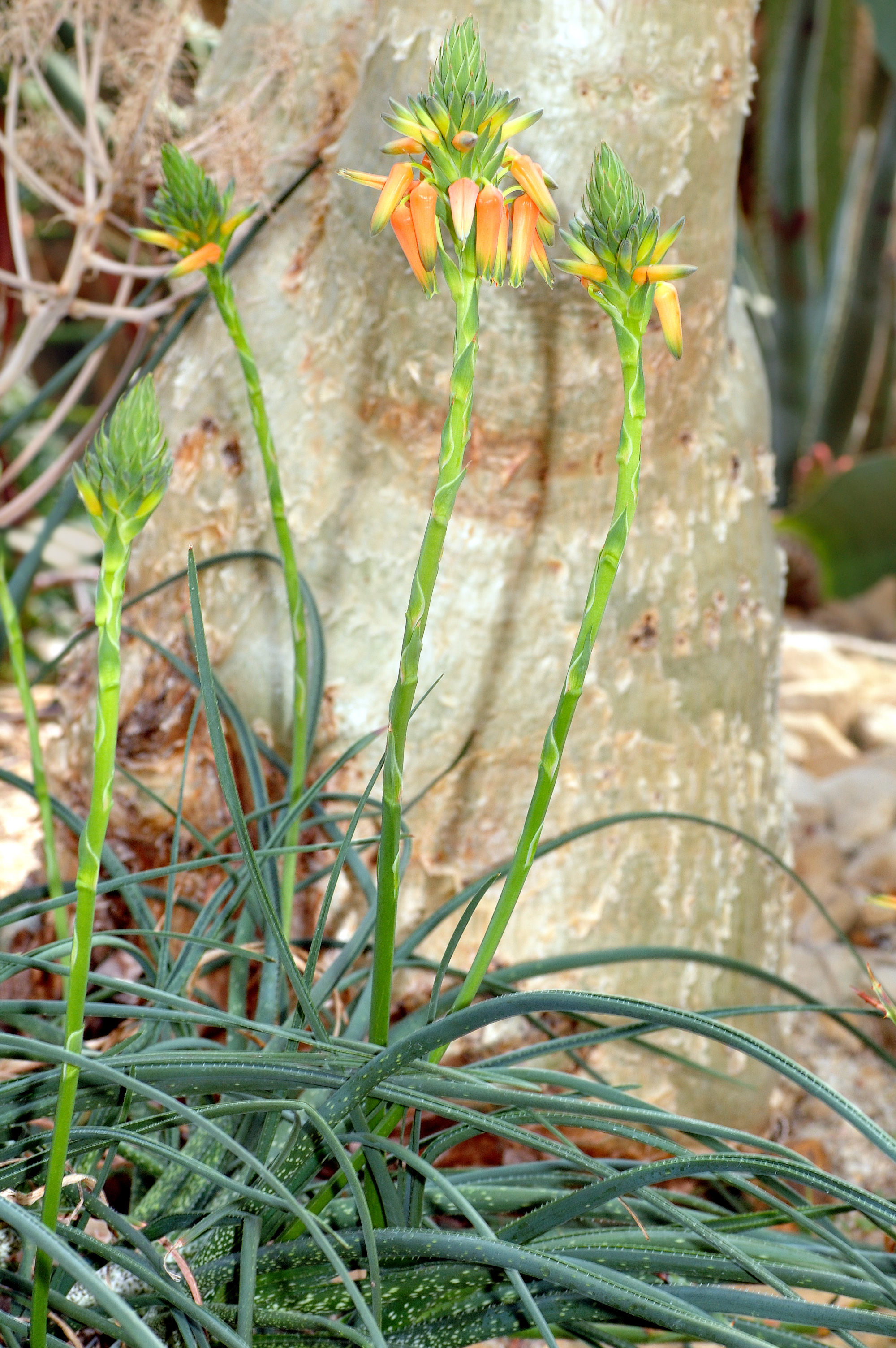 This image shows a plant of the species Aloe vossii.